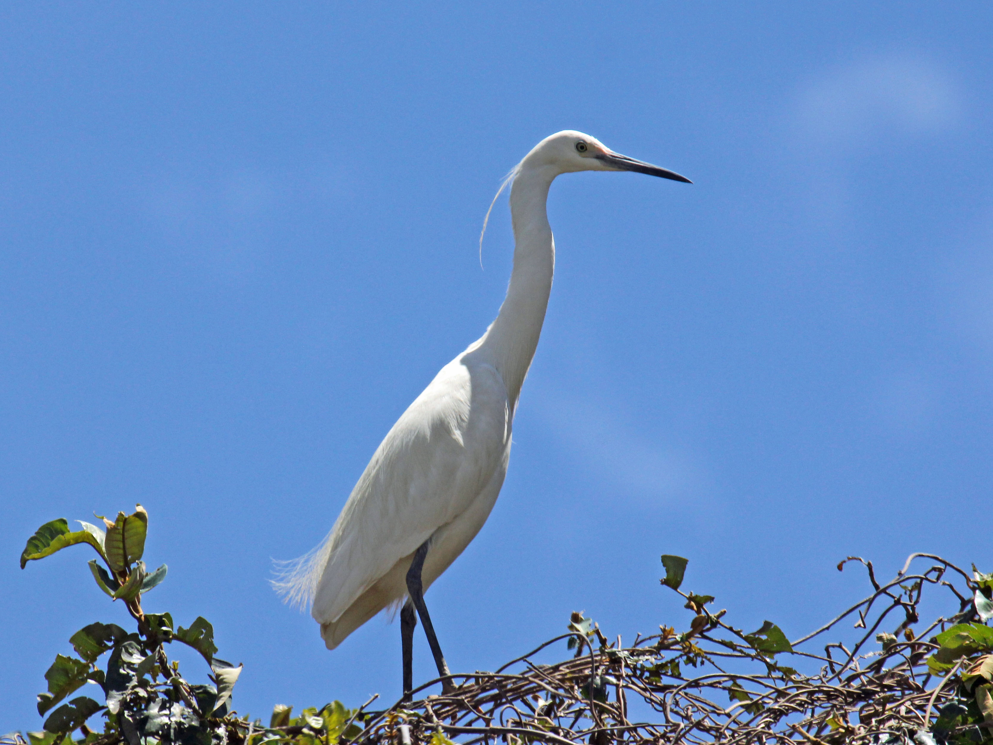 Dimorphic Egret (Egretta dimorpha) at Parc Tsarasaotra, an open bird sanctury in Antananrivo, Madagascar. Sometimes considered Egretta garzetta dimorpha - a subspecies of the Little Egret.